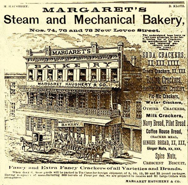 Illustrated advertisement for "Margaret's Steam and Mechanical Bakery", New Orleans, 1881. Bakery was run by Margaret Haughery, with profits going to her orphanage and projects to feed and help the poor.